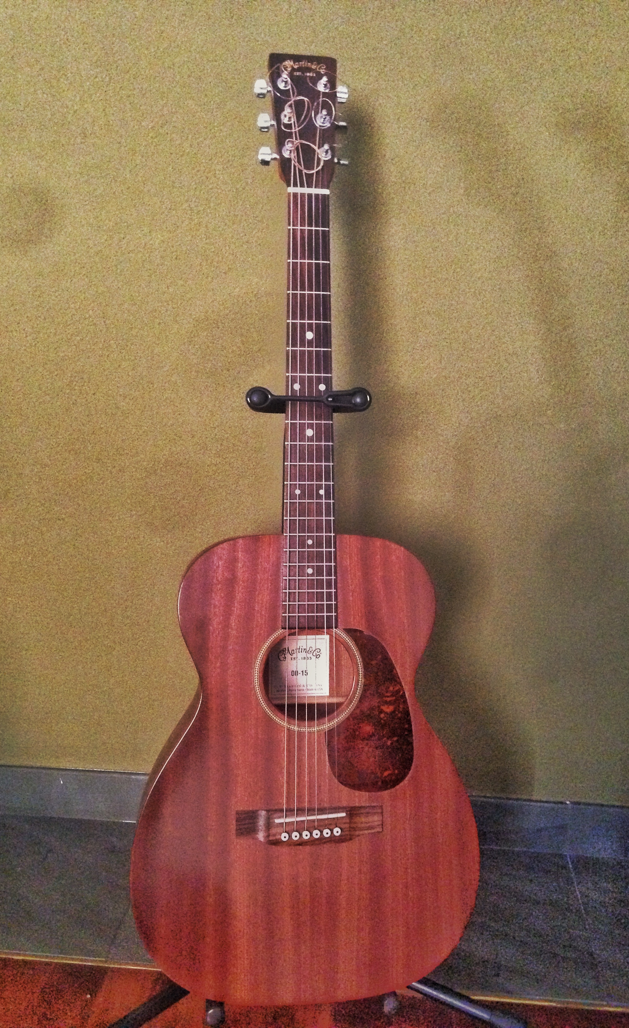 Martin 00-15 acoustic guitar